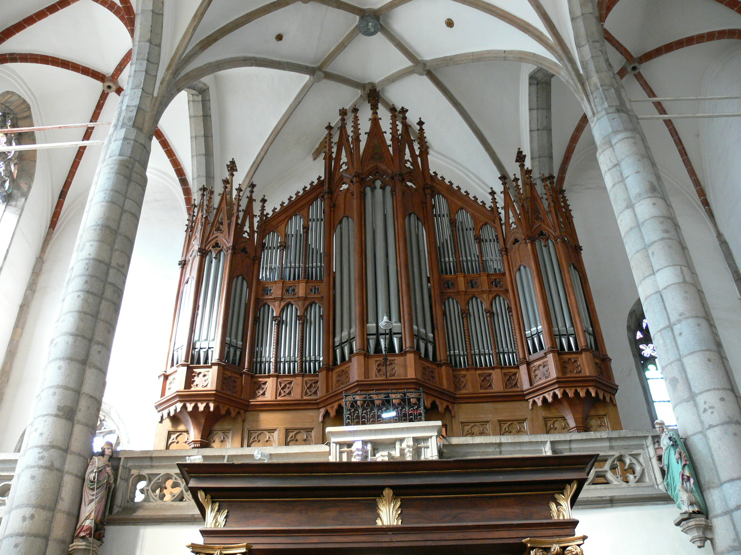 St. Veit (Český Krumlov). Gothic revival organ (1908) built by Heinrich Schiffner (Prague).